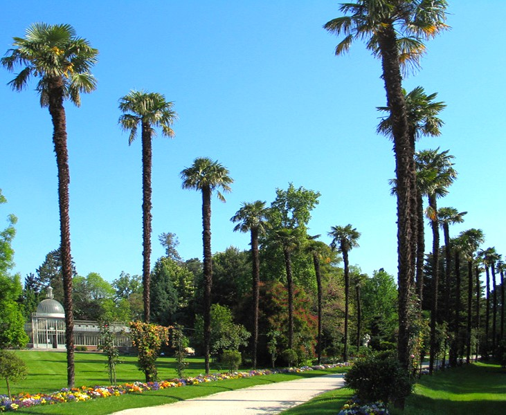 An avenue of Trachycarpus fortunei in Jardin Massey, Tarbes, France.